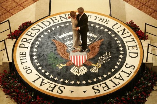 President George W. Bush and Laura Bush dance on the Presidential Seal at the Commander-in-Chief Inaugural Ball at the National Building Museum in Washington, D.C., Thursday, Jan. 20, 2005.